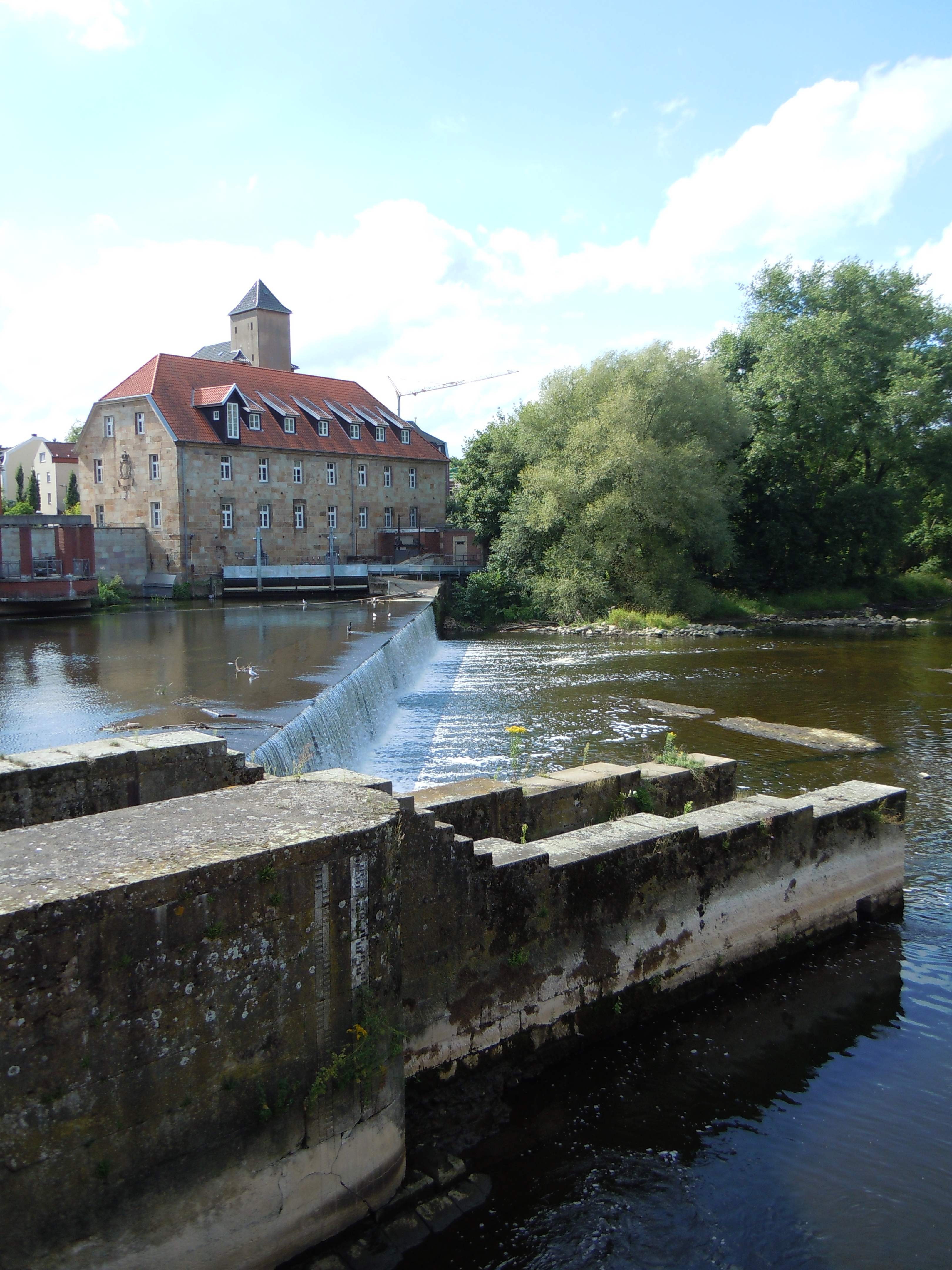 Dam of River Ems in Rheine (Germany), built in 1550 This image shows a heritage building in Germany, located in the North Rhine-Westphalian city Rheine (no. 102). This image shows a heritage building in Germany, located in the North Rhine-Westphalian city Rheine (no. 064).